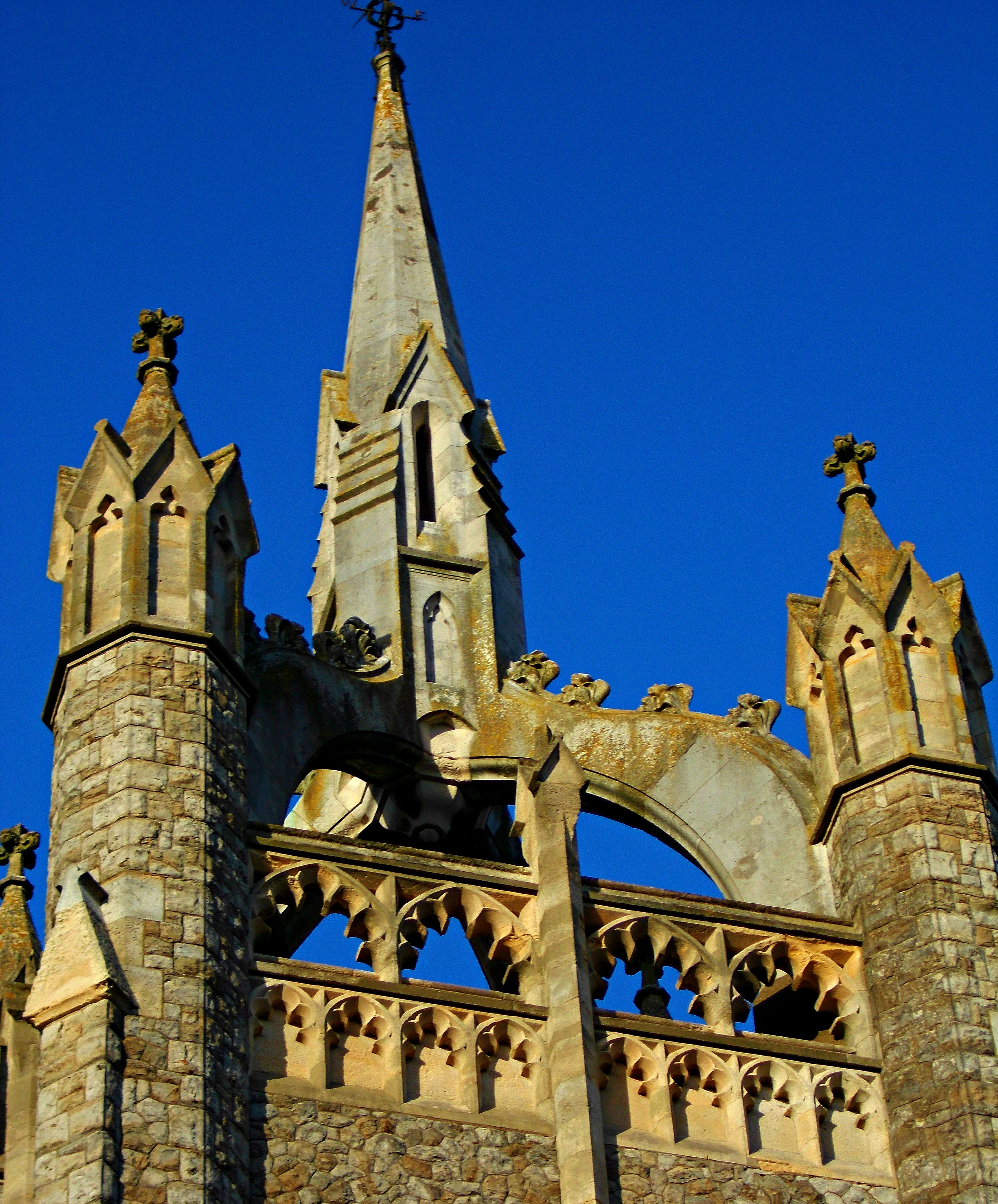 Sutton, Surrey, Greater London